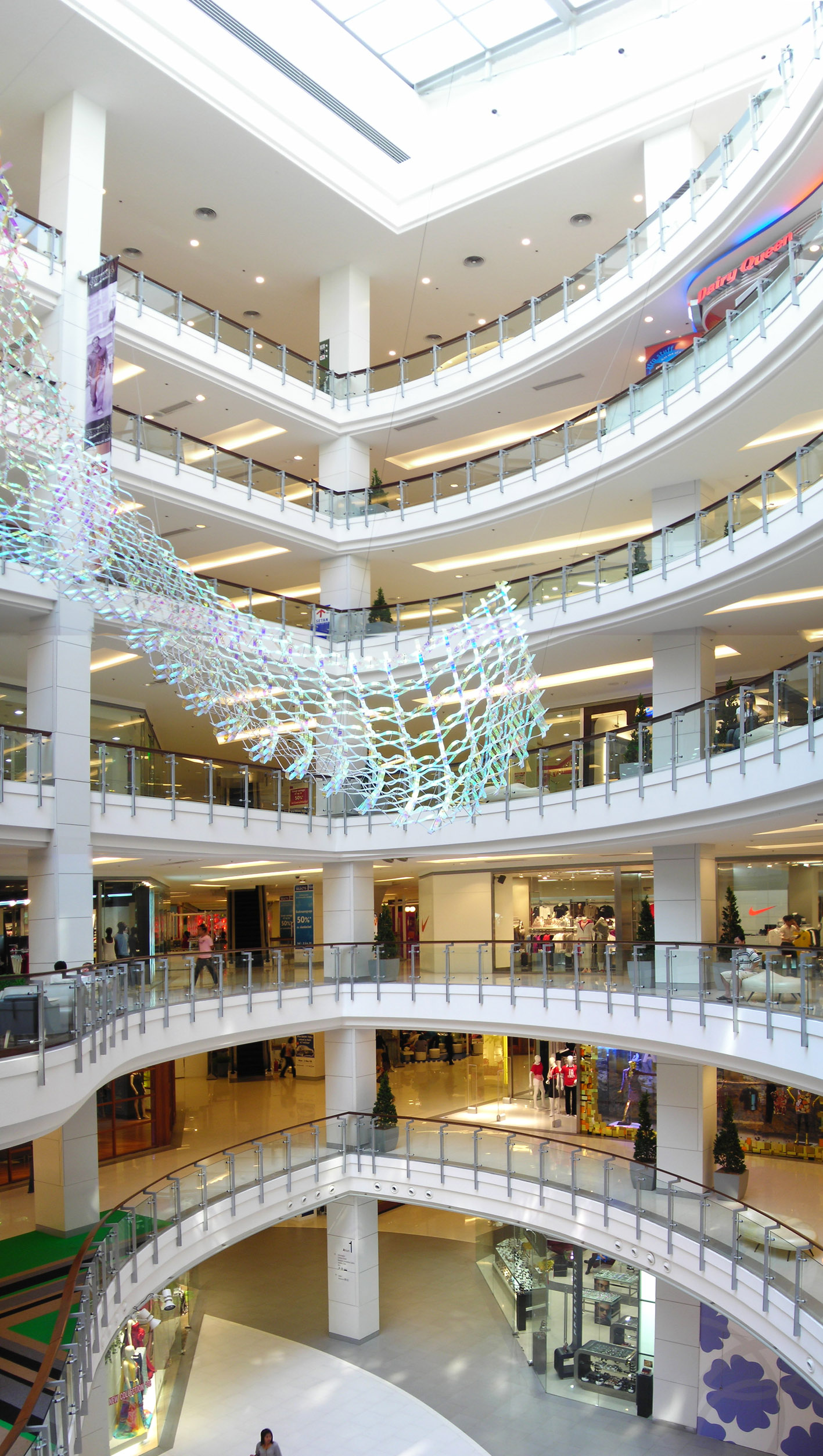 Inside the Central World shopping centre in Bangkok, Thailand